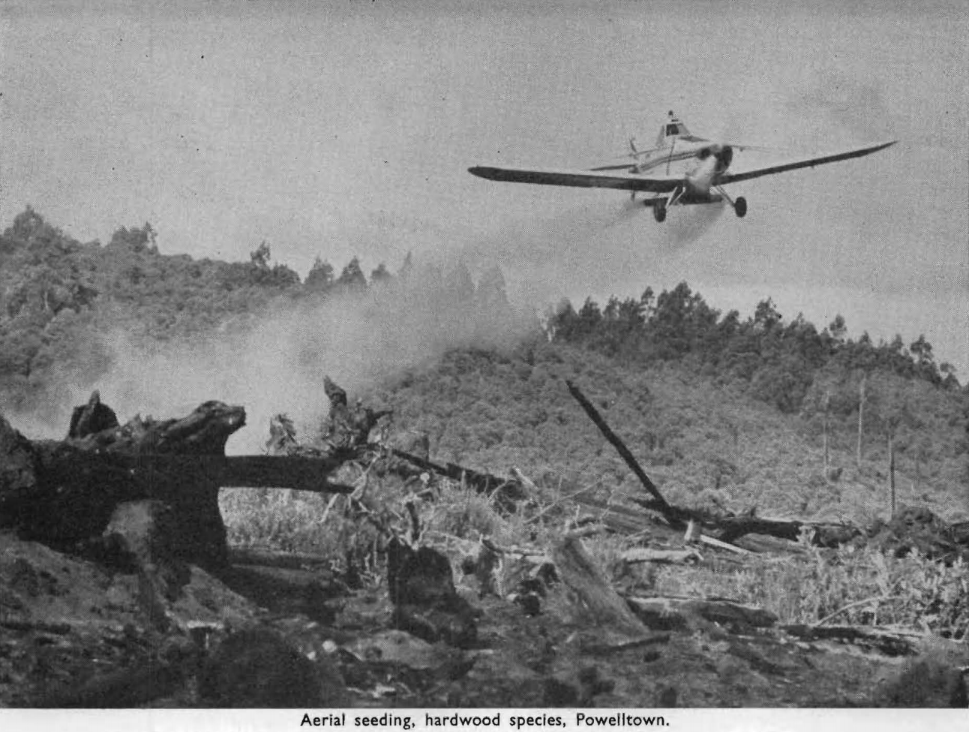 Aerial Seeding Powelltown 1967 - FCV annual report